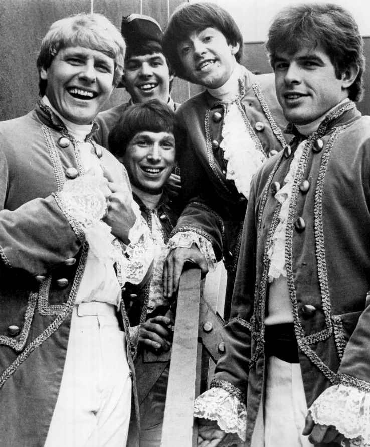 Publicity photo of Paul Revere and the Raiders. From left: Paul Revere, Mike "Smitty" Smith, Phil "Fang" Volk, Mark Lindsay, Drake Levin.